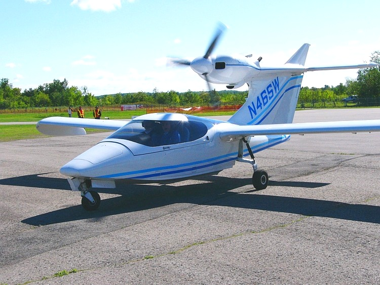 A Seawind